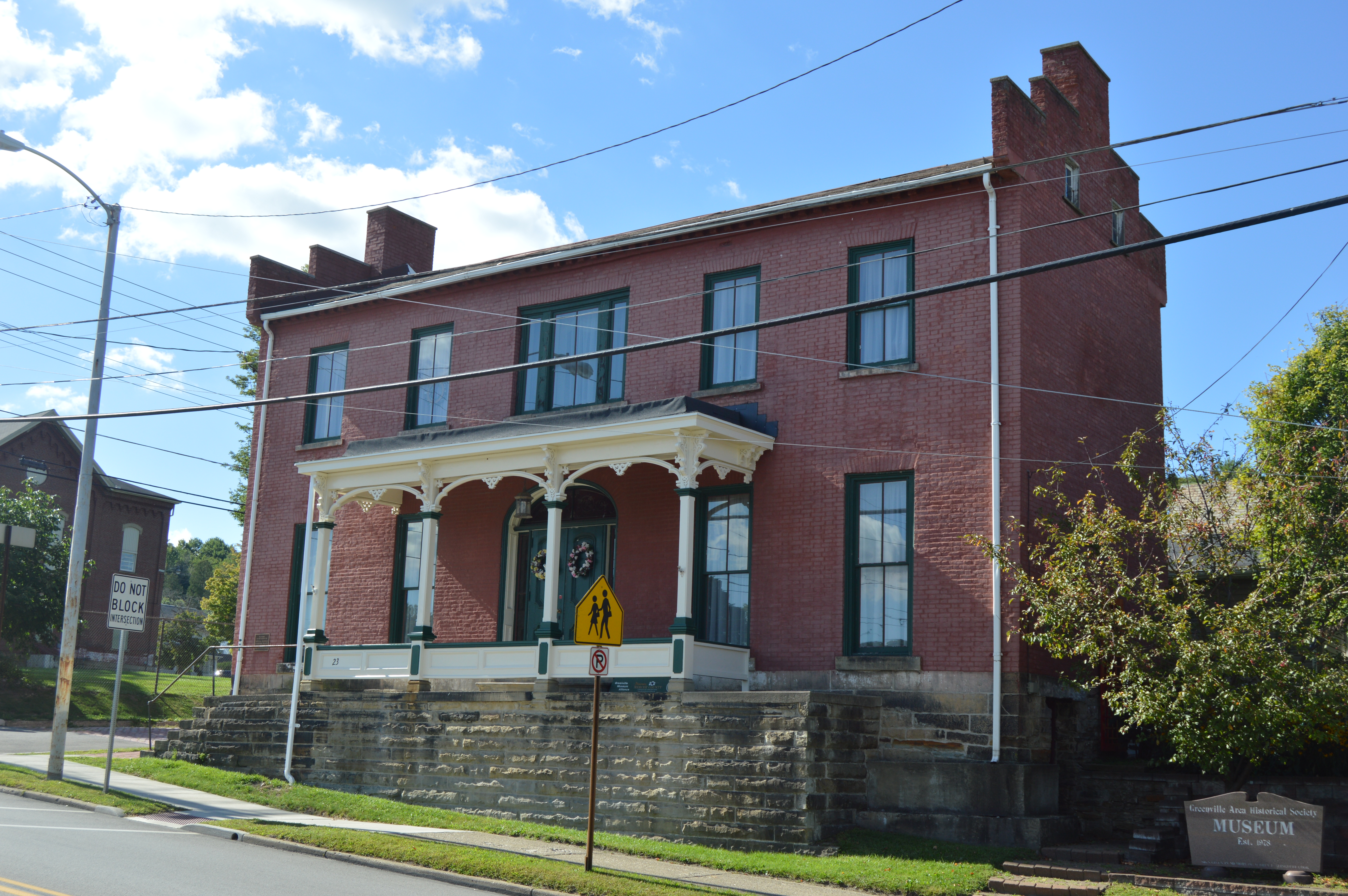 Front and eastern side of the Alexander P. and James S. Waugh House, located at 23 W. Main Street (Pennsylvania Route 358) in Greenville, Pennsylvania, United States. Built in 1826, it is listed on the National Register of Historic Places.